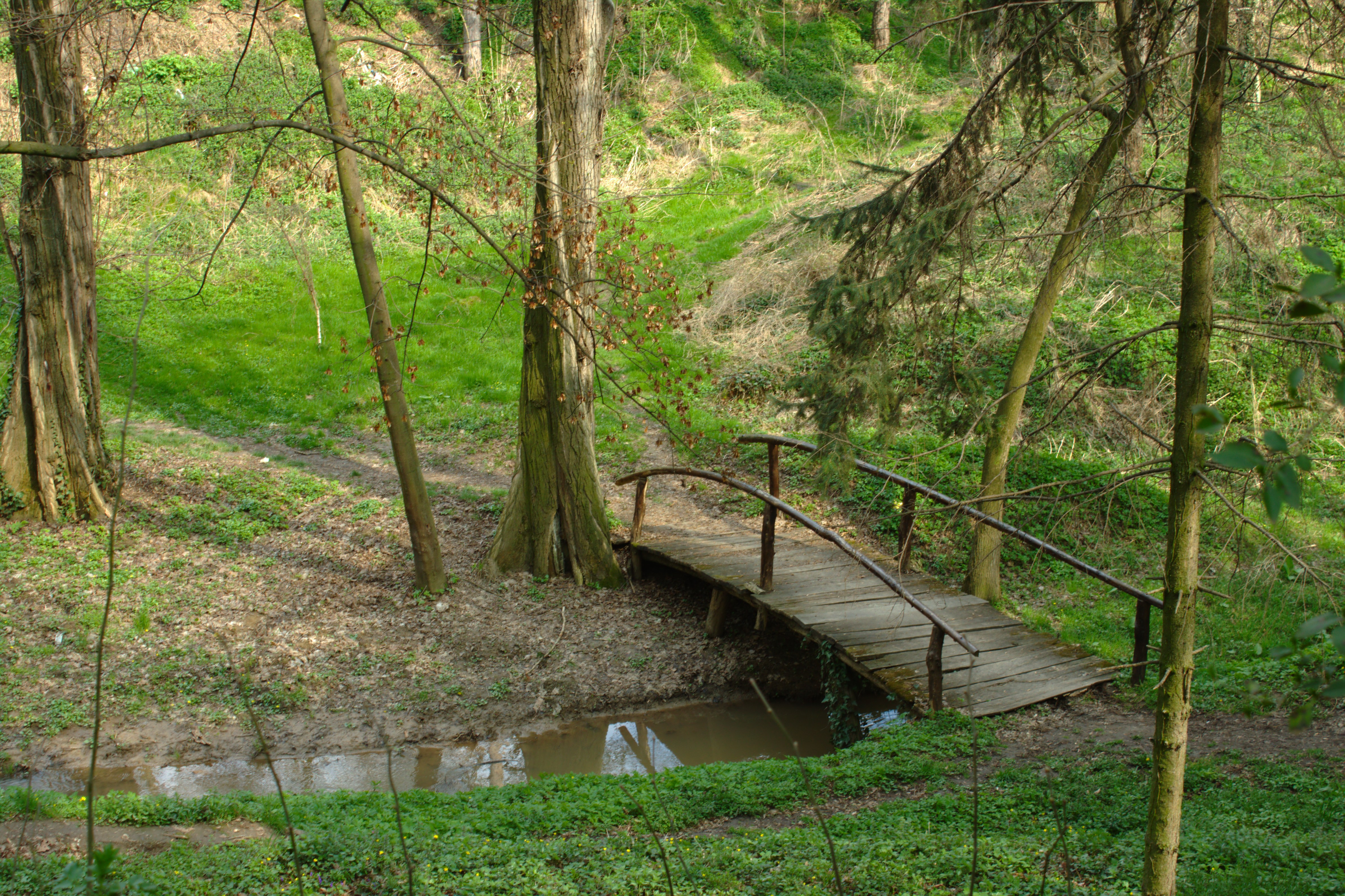 Beginning of spring in Dvorska bašta park in the southern part of the town of Sremski Karlovci, Serbia